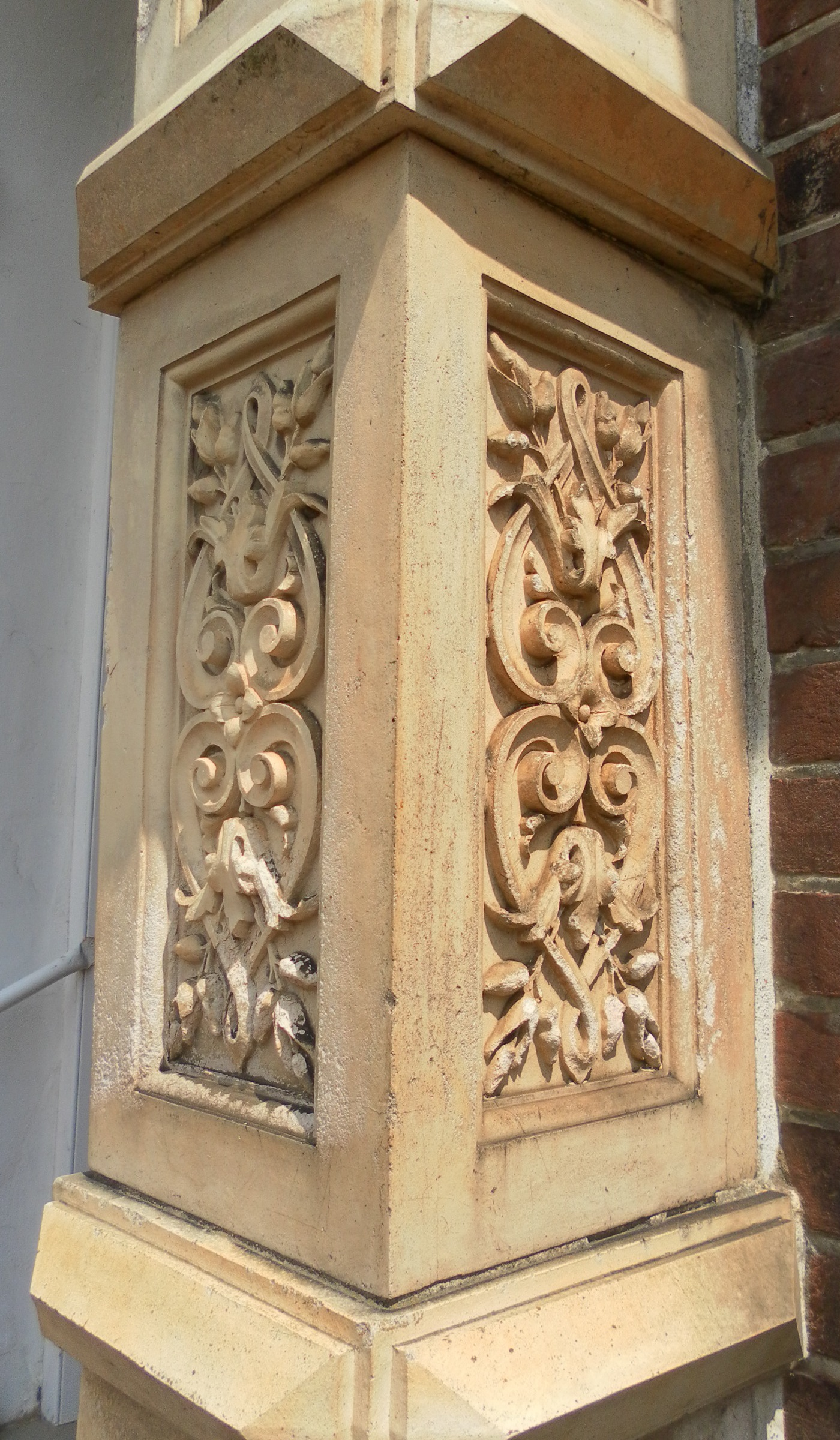 Moulded pilaster on the doorway of Robertsbridge United Reformed Church, High Street, Robertsbridge, Rother District, East Sussex, England. Designed in 1881 by Thomas Elworthy of St Leonards-on-Sea. Listed at Grade II by English Heritage (NHLE Code 1221451)